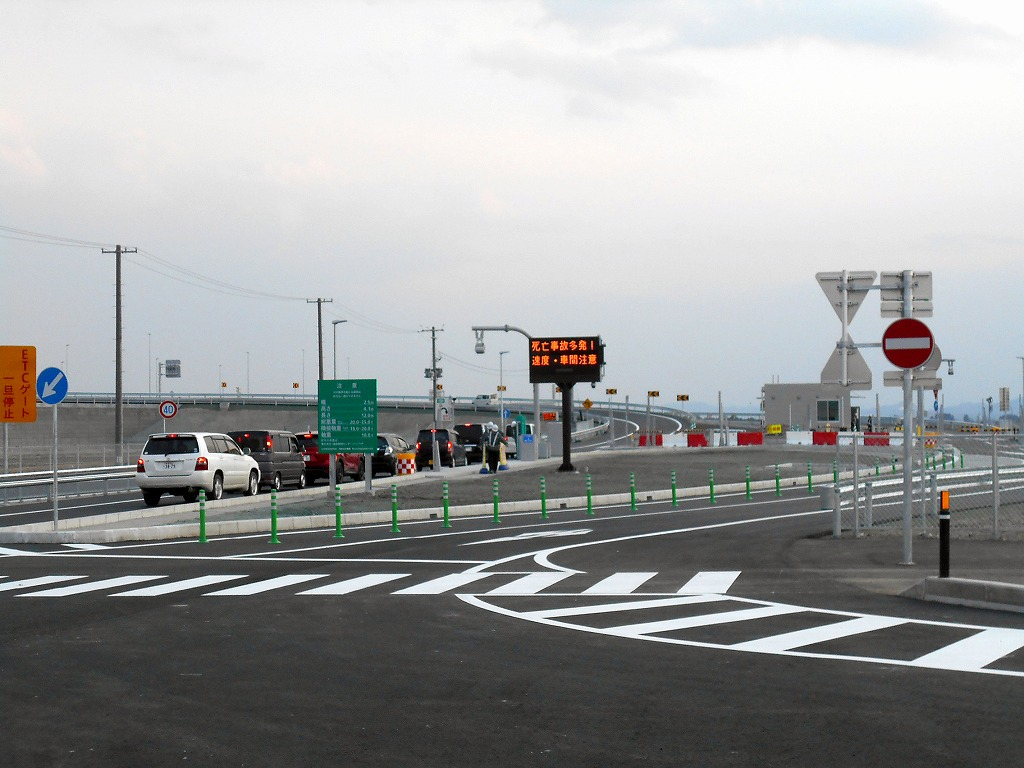 Natori chuo smart interchange (for Sendai)